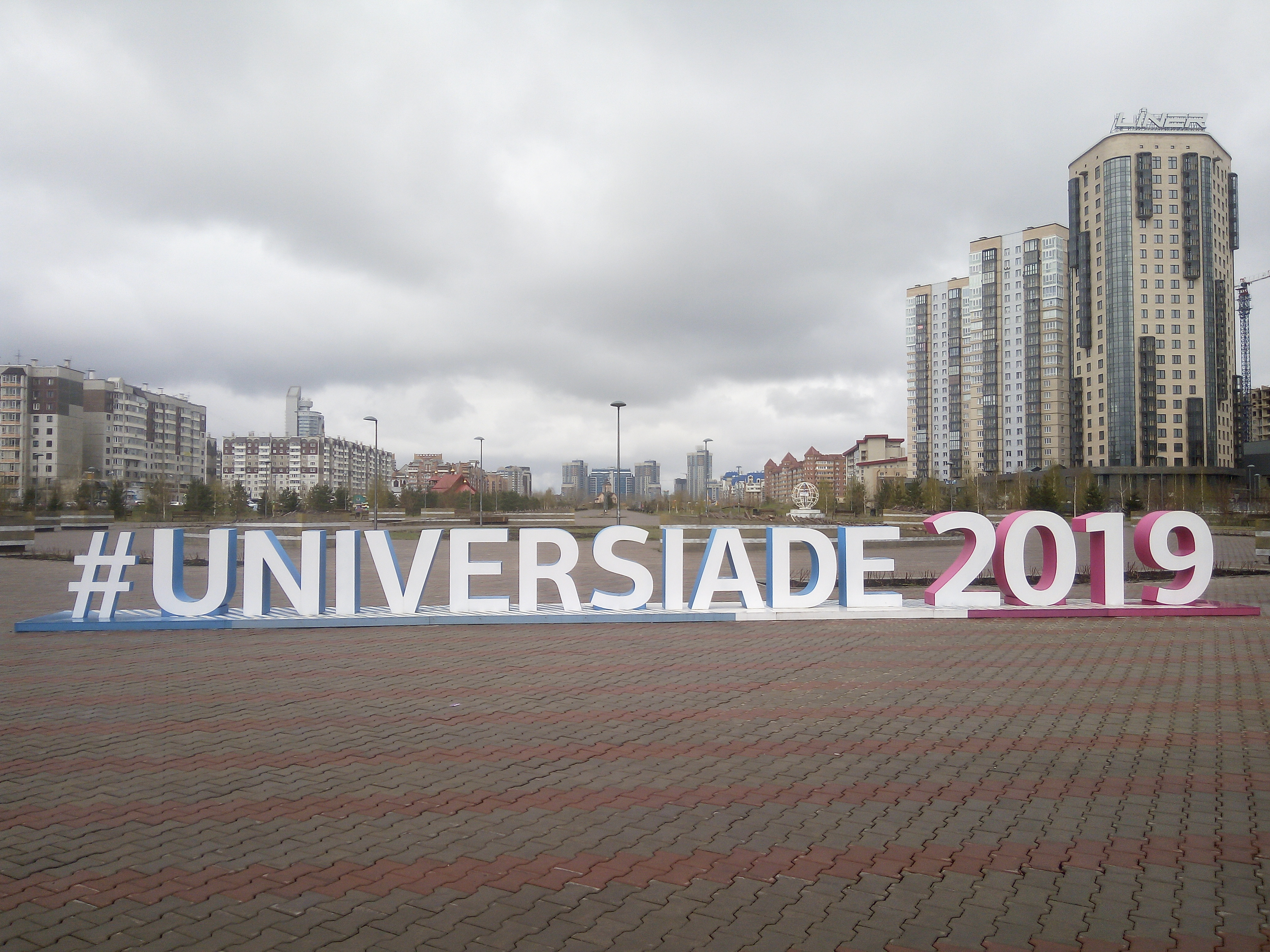 in title